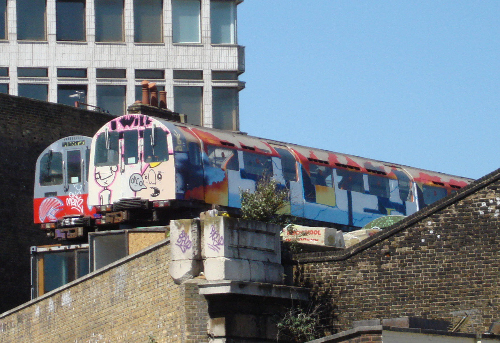 Two heavily "tagged" London Underground 1983 Stock vehicles on top of an old railway viaduct on Great Eastern Street, London